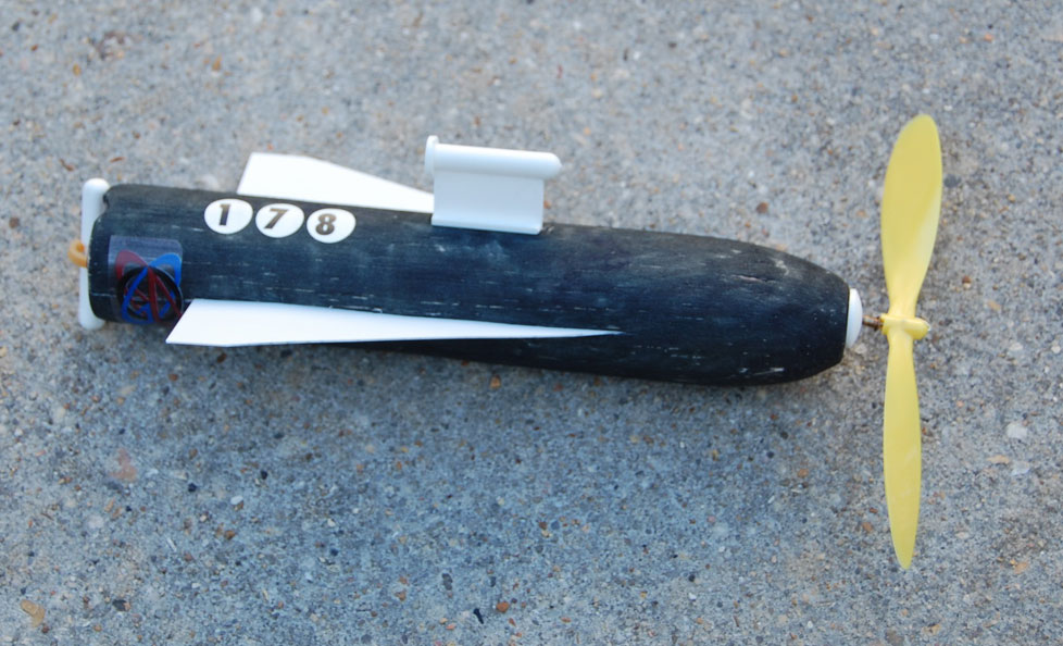 Cub scout space derby propeller powered model rocket